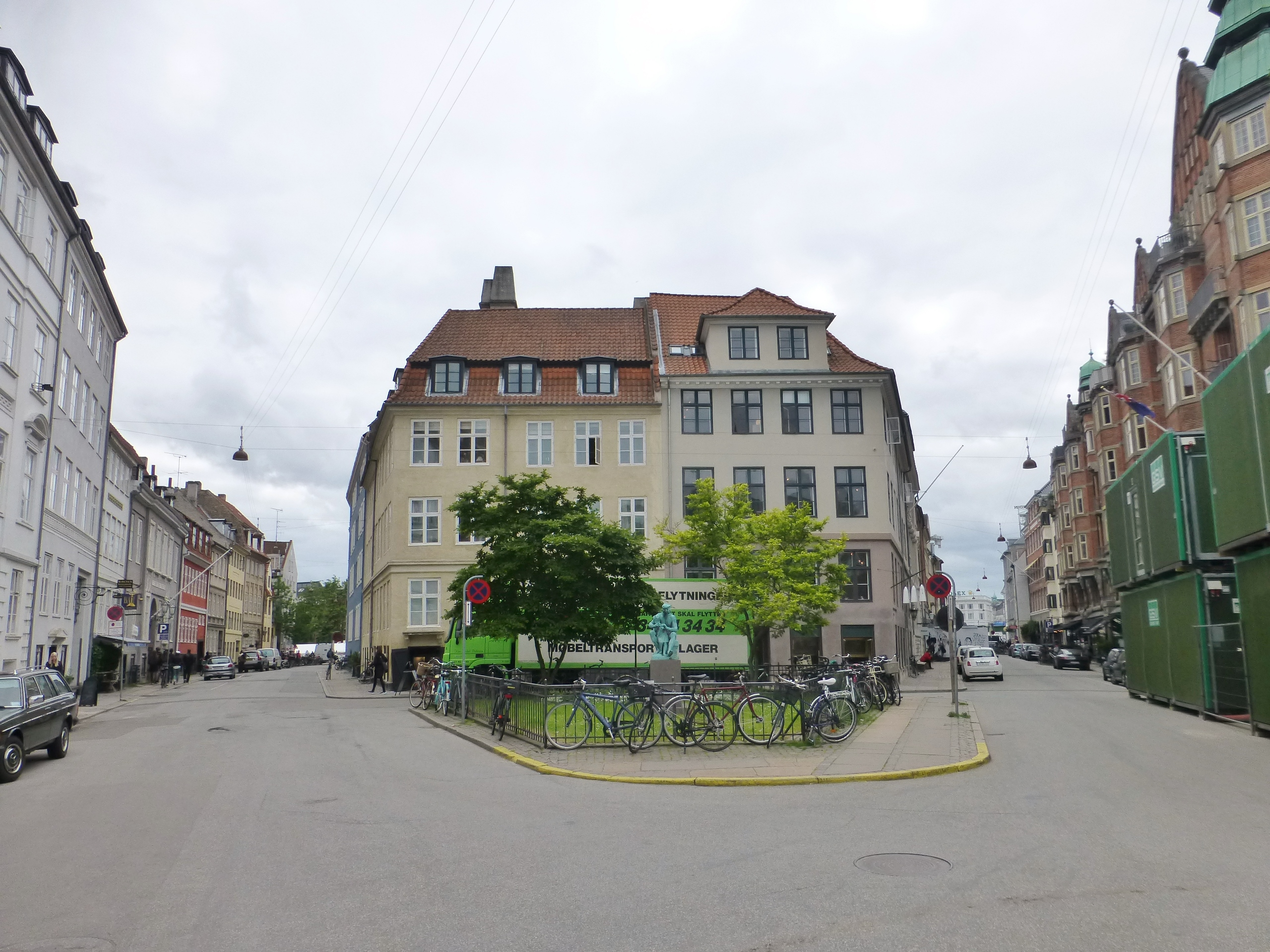 Unnamed square between the streets Lille Strandstræde and Store Strandstræde in Indre By in Copenhagen.